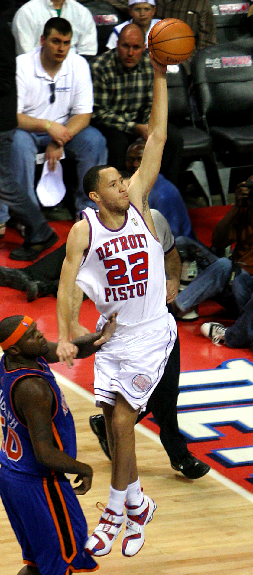 American Professional basketball player Tayshaun Prince of the Detroit Pistons National Basketball Association team.